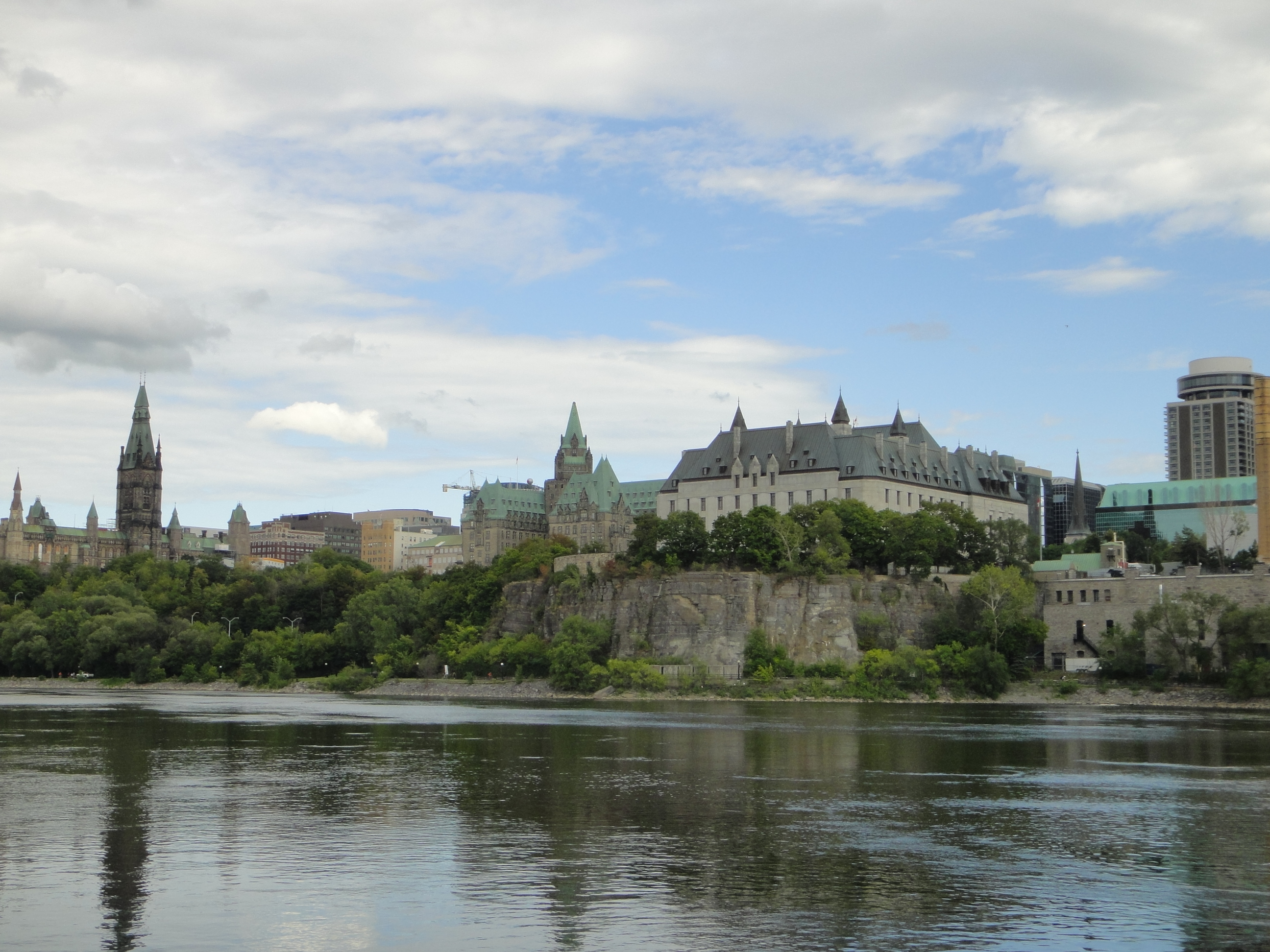 The fabulous sight seeing place in Ottawa